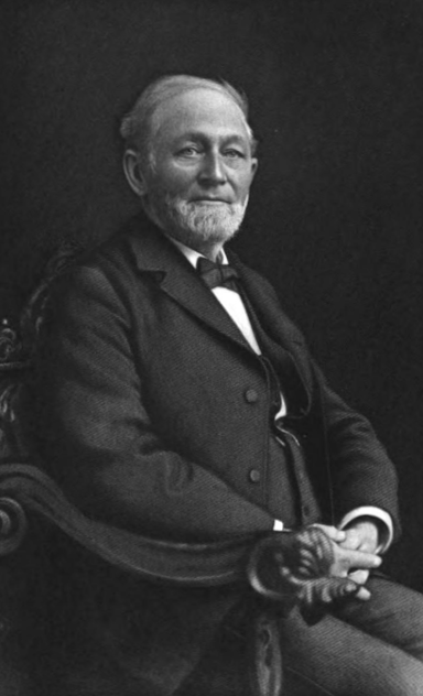 Portrait of Lewis Jackson Bennett from Memorial and Family History of Erie County, New York, Volume I, 1908, page 216